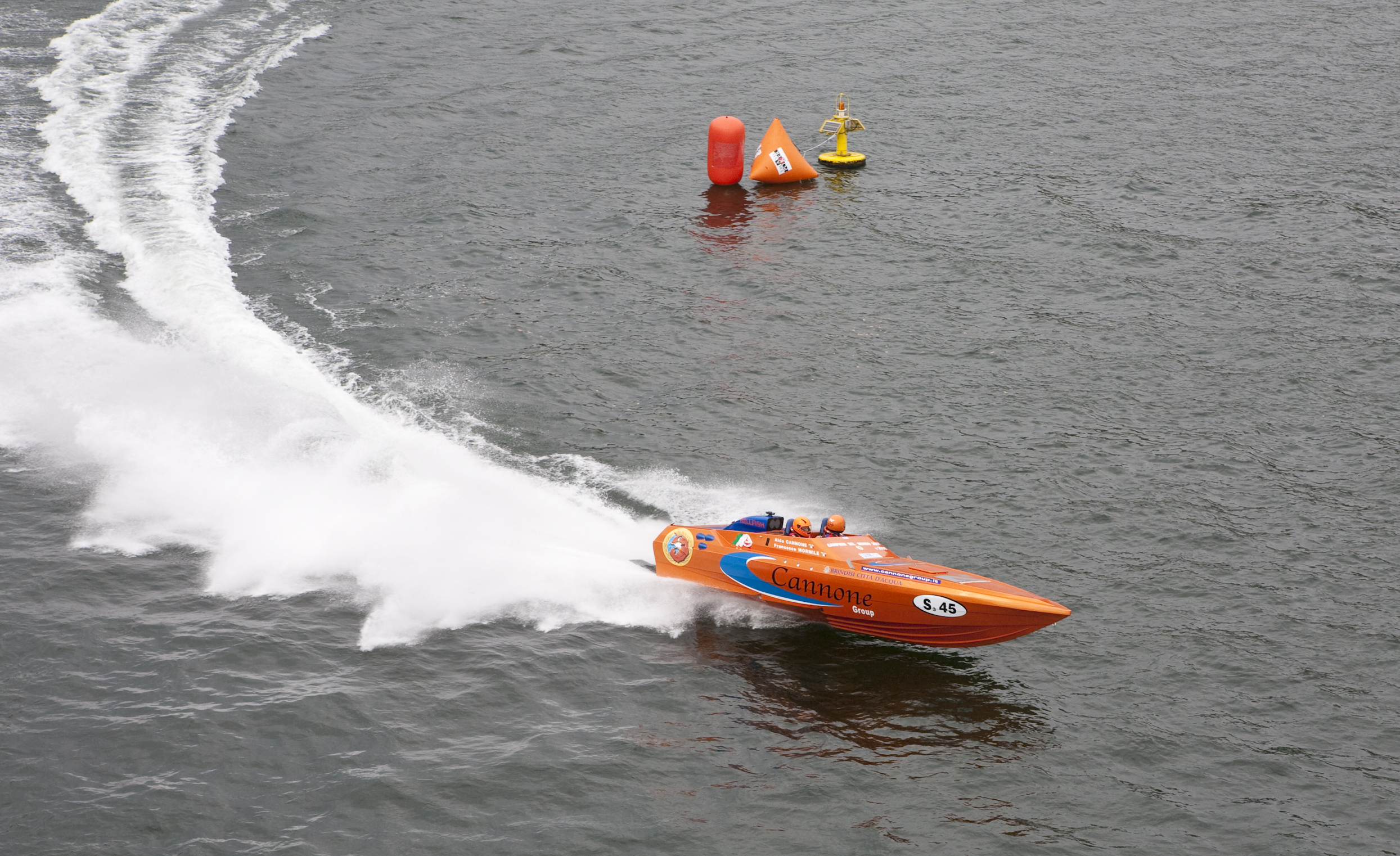 Boat